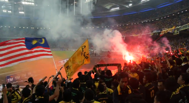 A part of the action from Ultras Malaya during the 2014 FIFA World Cup qualification match between Malaysia and Singapore.